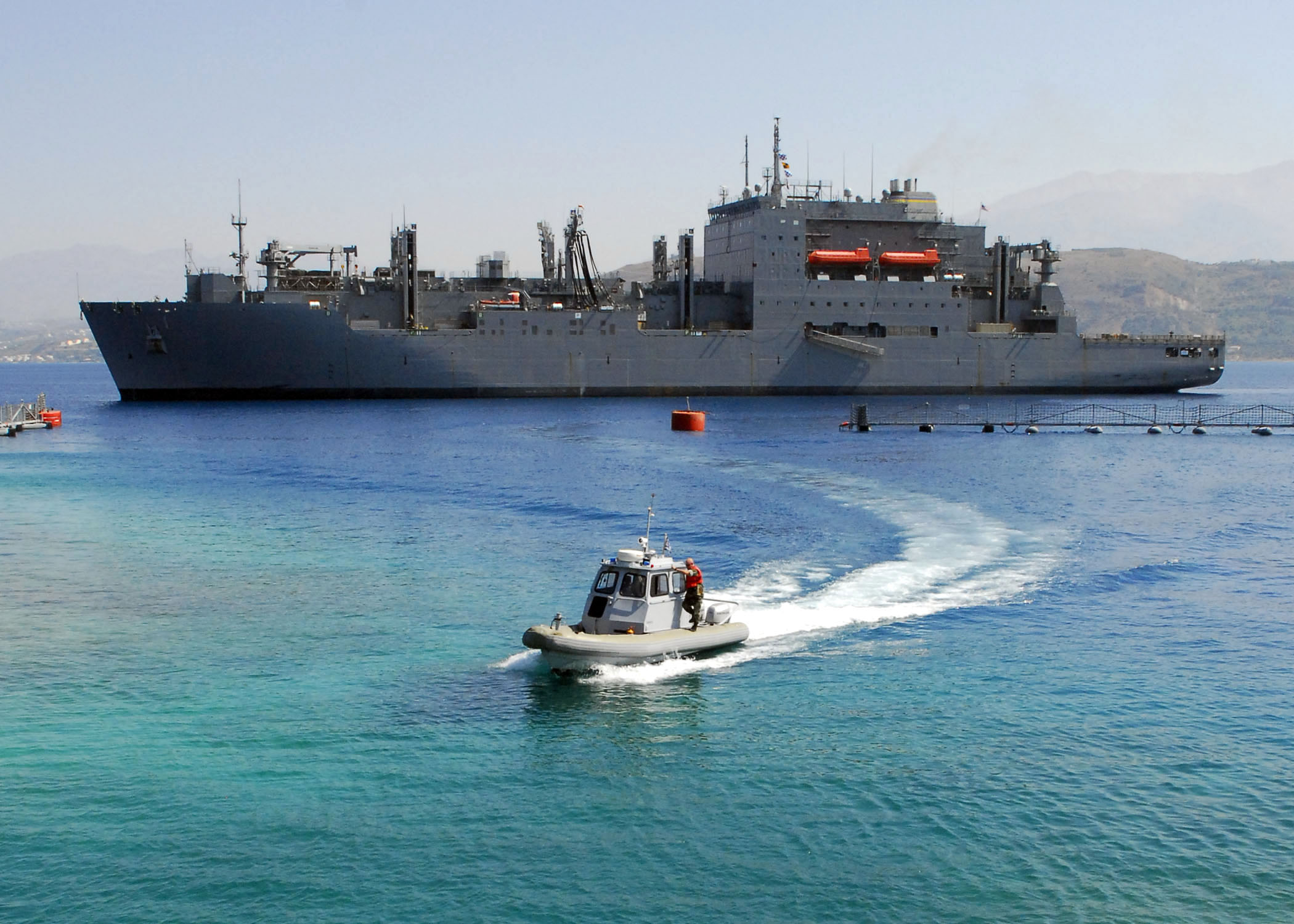 USNS Lewis and Clark (T-AKE-1) arrives for a port visit at Souda Bay, Crete, Greece, 24 July 2007. Note the harbor security boat patrolling in the foreground. US Navy photo # 070724-N-0780F-002 SOUDA BAY, Crete, Greece (July 24, 2007) by Mr. Paul Farley, from Navy Newsstand.